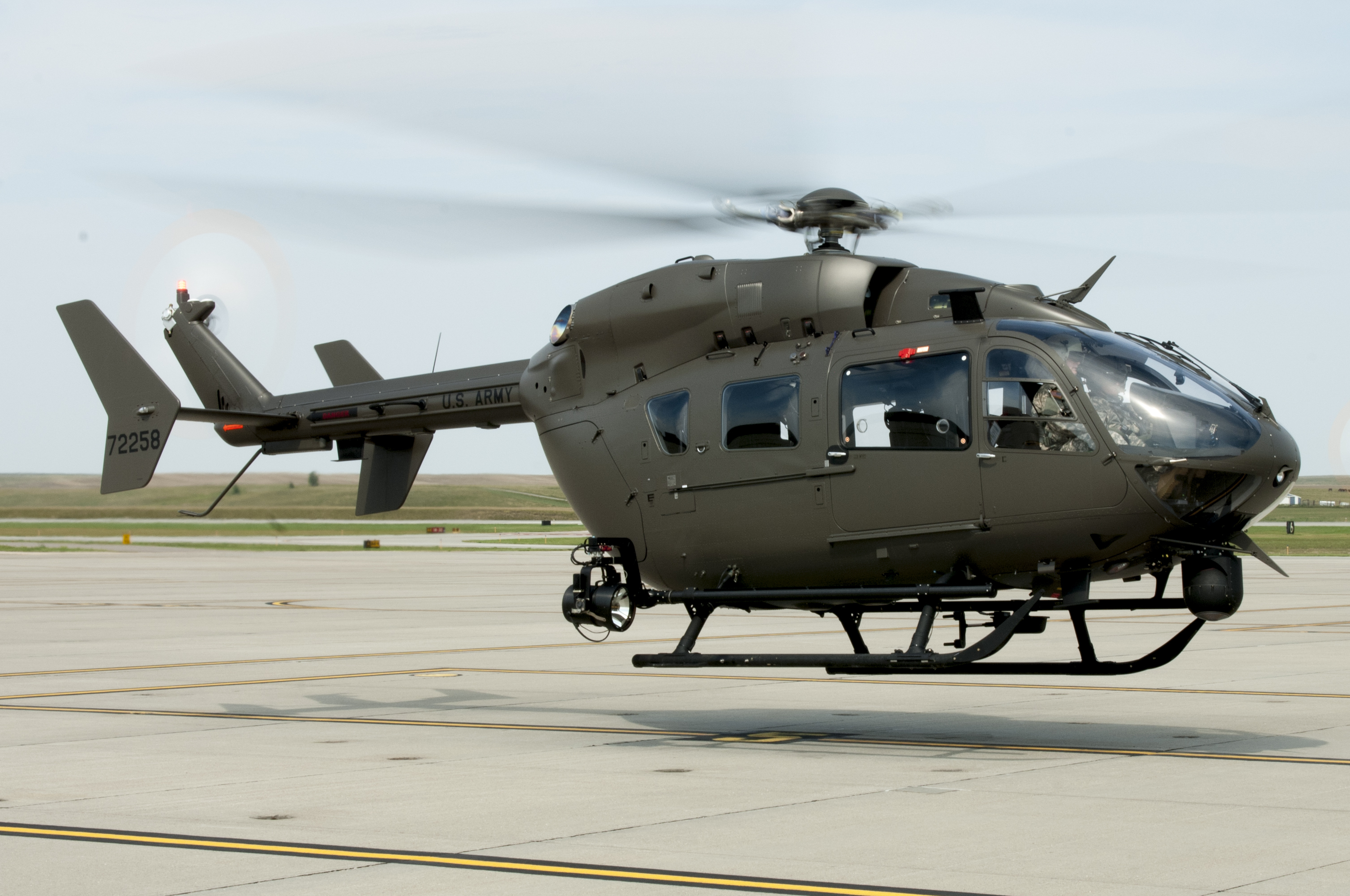 A South Dakota Army National Guard aviation unit will deploy multiple UH-72 Lakota helicopters to the southwest border of the United States in continuing support of the United States Customs and Border Protection. This is the first time South Dakota has deployed the Lakota. (South Dakota Army National Guard photo by Staff Sgt. Michael Beck/Released) Unit: South Dakota National Guard Public Affairs DVIDS Tags: security; homeland security; South Dakota; immigration; Mexico; Lakota; southwest border; border mission; drug enforcement; UH-72